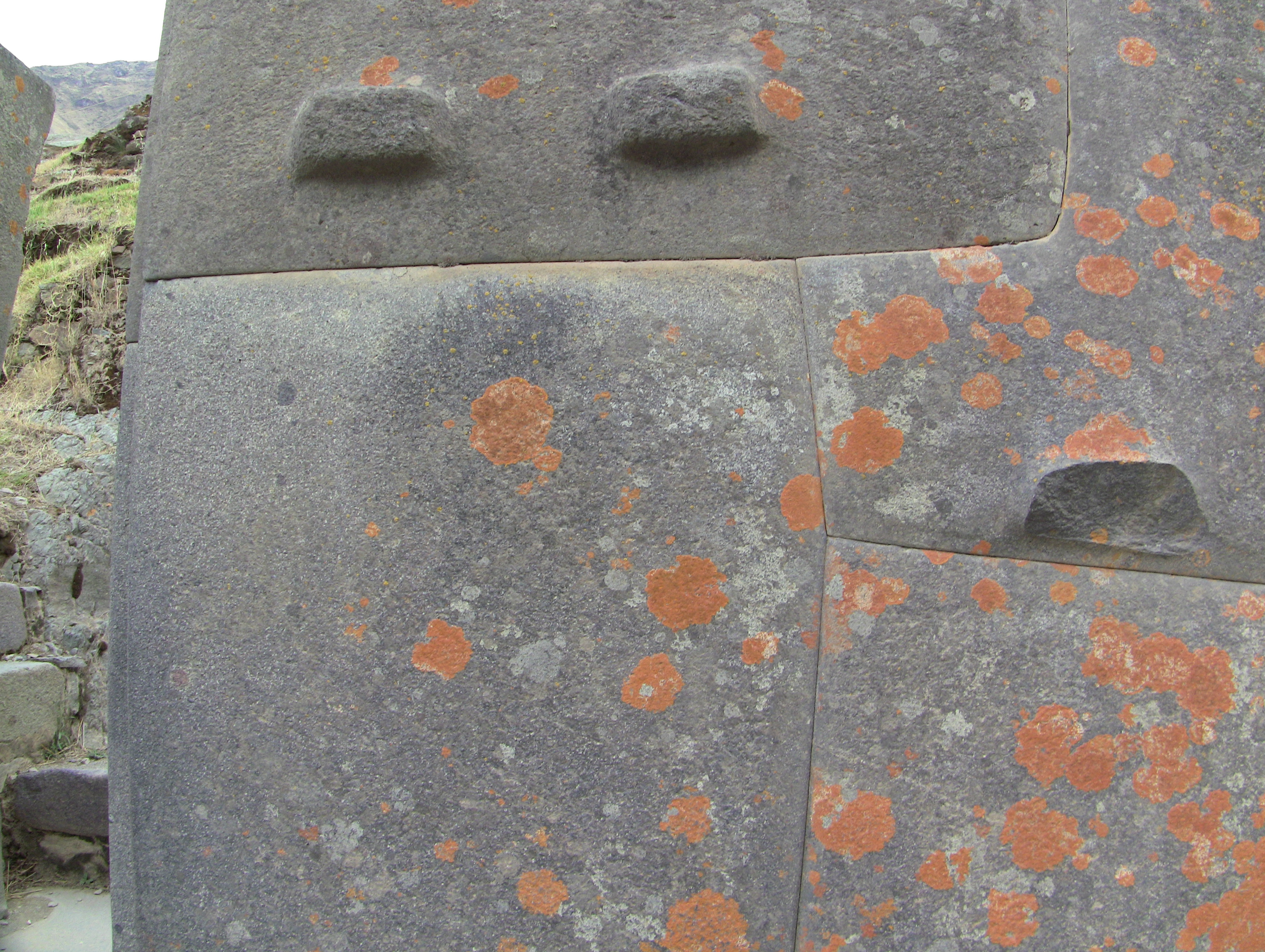 Ollantaytambo is a town and an Inca archaeological site in southern Peru.